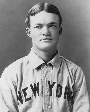 1903 photograph of Luther "Dummy" Taylor, pitcher for the New York Giants. This image is cropped slightly from the original plate.